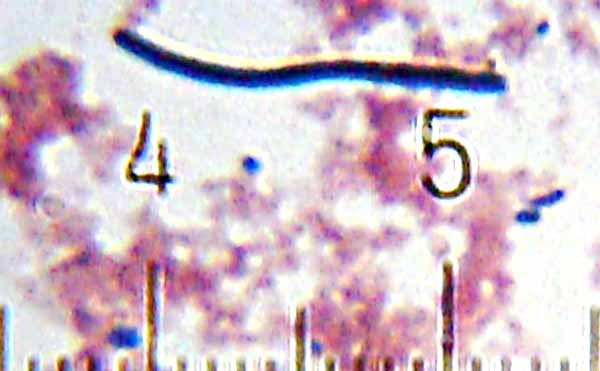 Some bacteria, presumably Lactobacillus delbrueckii subspecies bulgaricus from a sample of Activia® brand yogurt. 100× objective, 15× eyepiece. Numbered ticks are 11 µM apart. The scale of the full-sized version of this image is such that each pixel represents a 0.038-µM square. Gram stained.